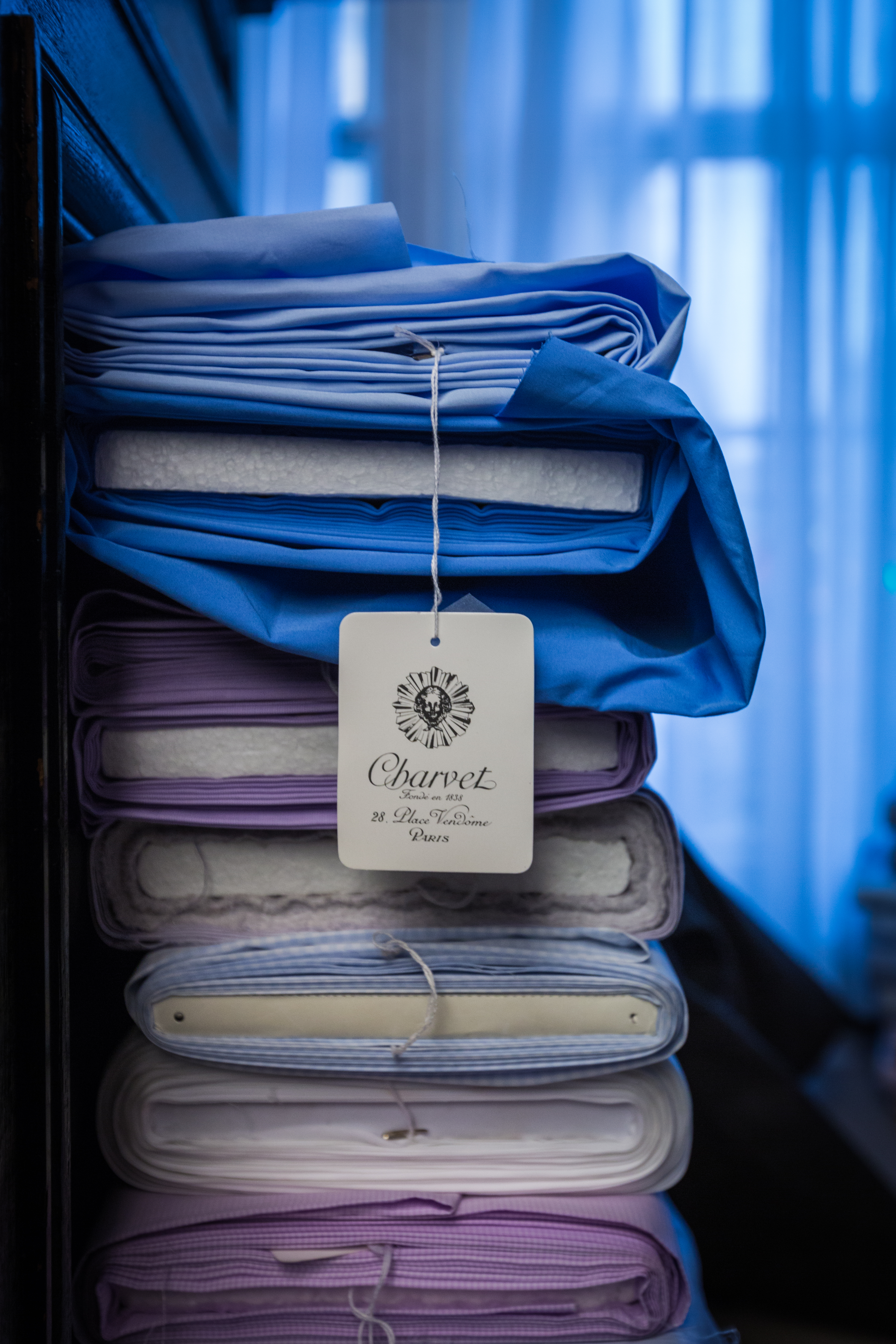 Third floor of Charvet's store, place Vendôme in Paris.